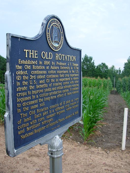 Rivers Langley